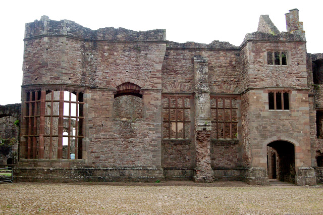 Partly-restored windows facing the Pitched Stone Court, Raglan Castle Raglan Castle, in Monmouthshire, is the boyhood home of Henry Tudor, later King Henry VII. Although there had been a castle on this site since the twelfth century, the late medieval structure visible today dates mostly from the fifteenth. Although a defensive fortress, by the sixteenth century the castle had become the grand home of the Earls (later Marquesses) of Worcester. When Civil War broke out in the 1640s, Henry Somerset, Marquess of Worcester, was a staunch supporter of King Charles. Even after most towns and castles in England and Wales had fallen to the Parliamentarians, Raglan held out for the King. After a siege lasting months, the Marquess was compelled to surrender the castle to to General Fairfax on 19 August 1646. Much of the castle was destroyed at this time: despite this, much of the hexagonal Great Tower and the lavish suites of apartments survive. Formerly conserved and managed by the British government's Board of Works (later English Heritage), the site is now cared for and run by Cadw (the historic environment service of the Welsh Assembly Government). Raglan Castle is open to visitors throughout the year.